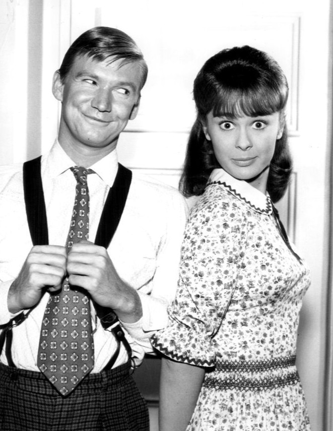 Photo of Dennis Robertson as Cousin Cletus and Debbie Watson as Tammy from the television program of the same name.